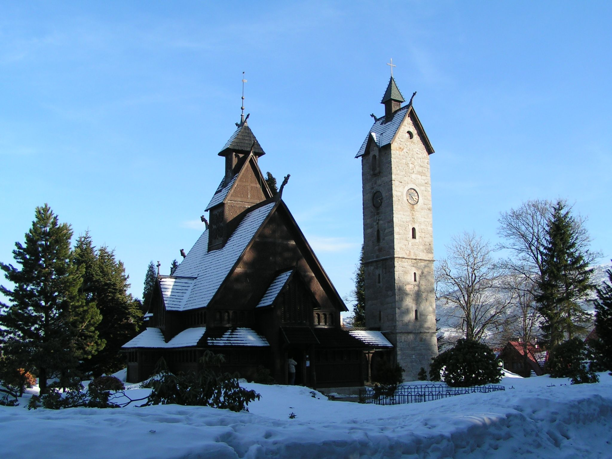 Church Wang in Karpacz, Poland